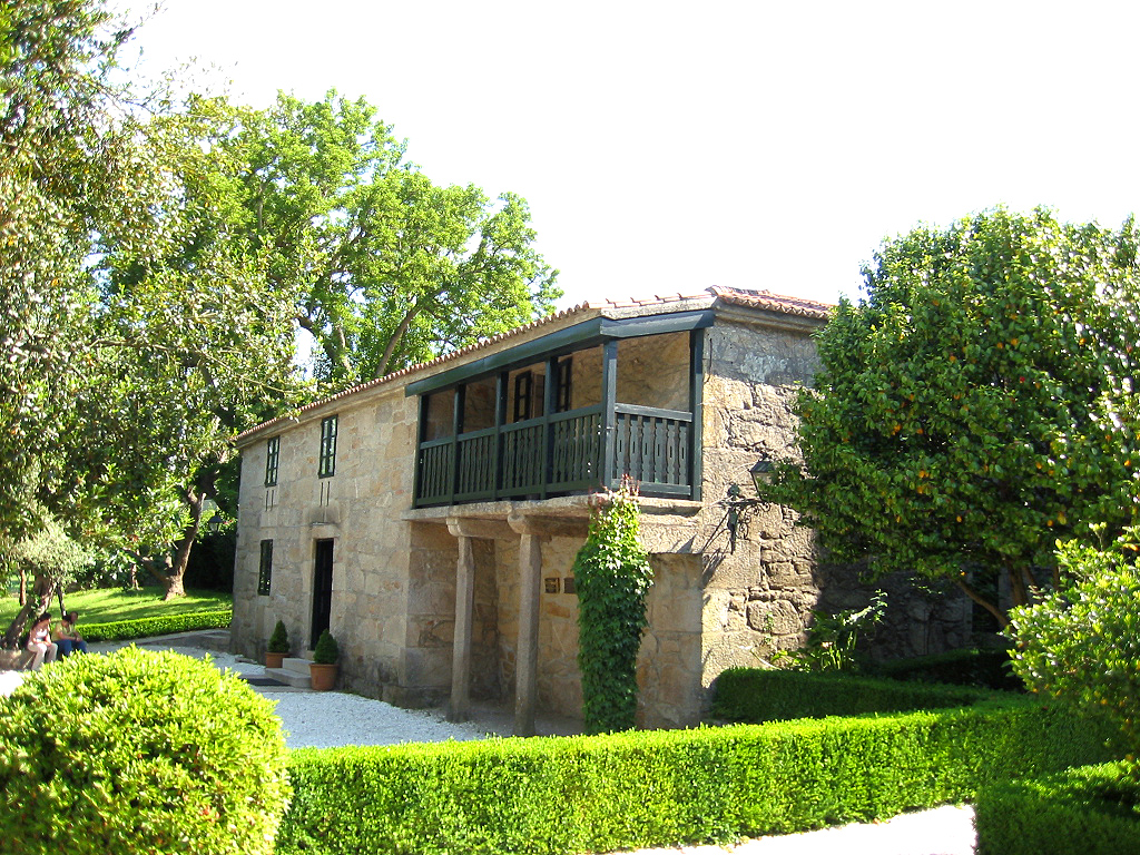 Historic house museum of the poetess Rosalía de Castro in Padrón